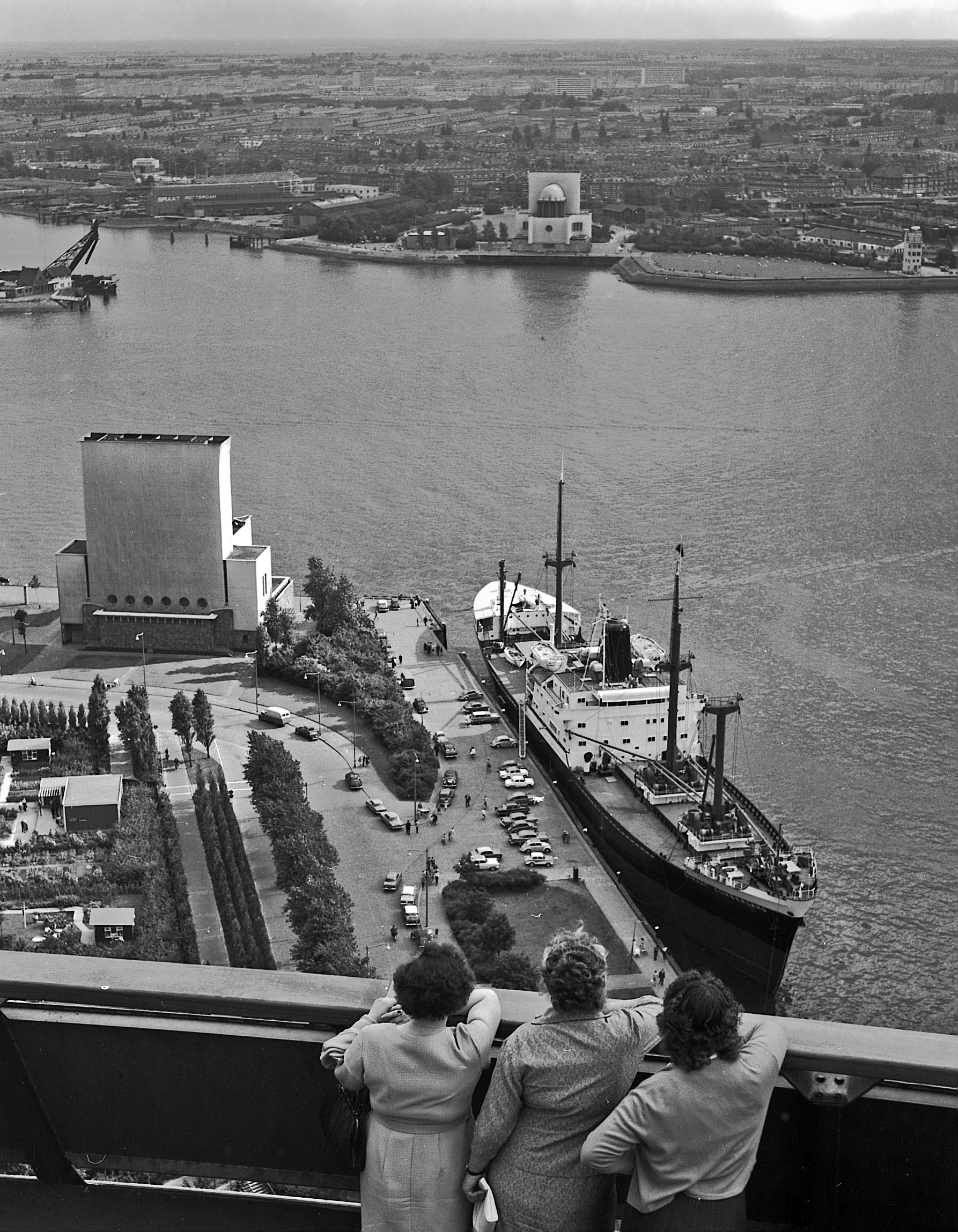 View from the Euromast looking direction south with the buildings of the Maastunnel